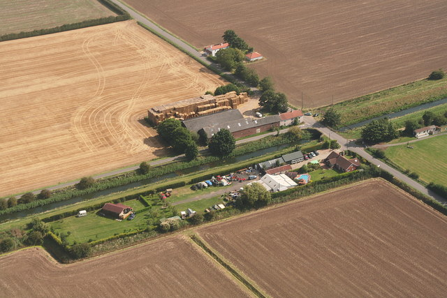 Warehouse by the Louth Canal at Firebeacon Bridge: aerial